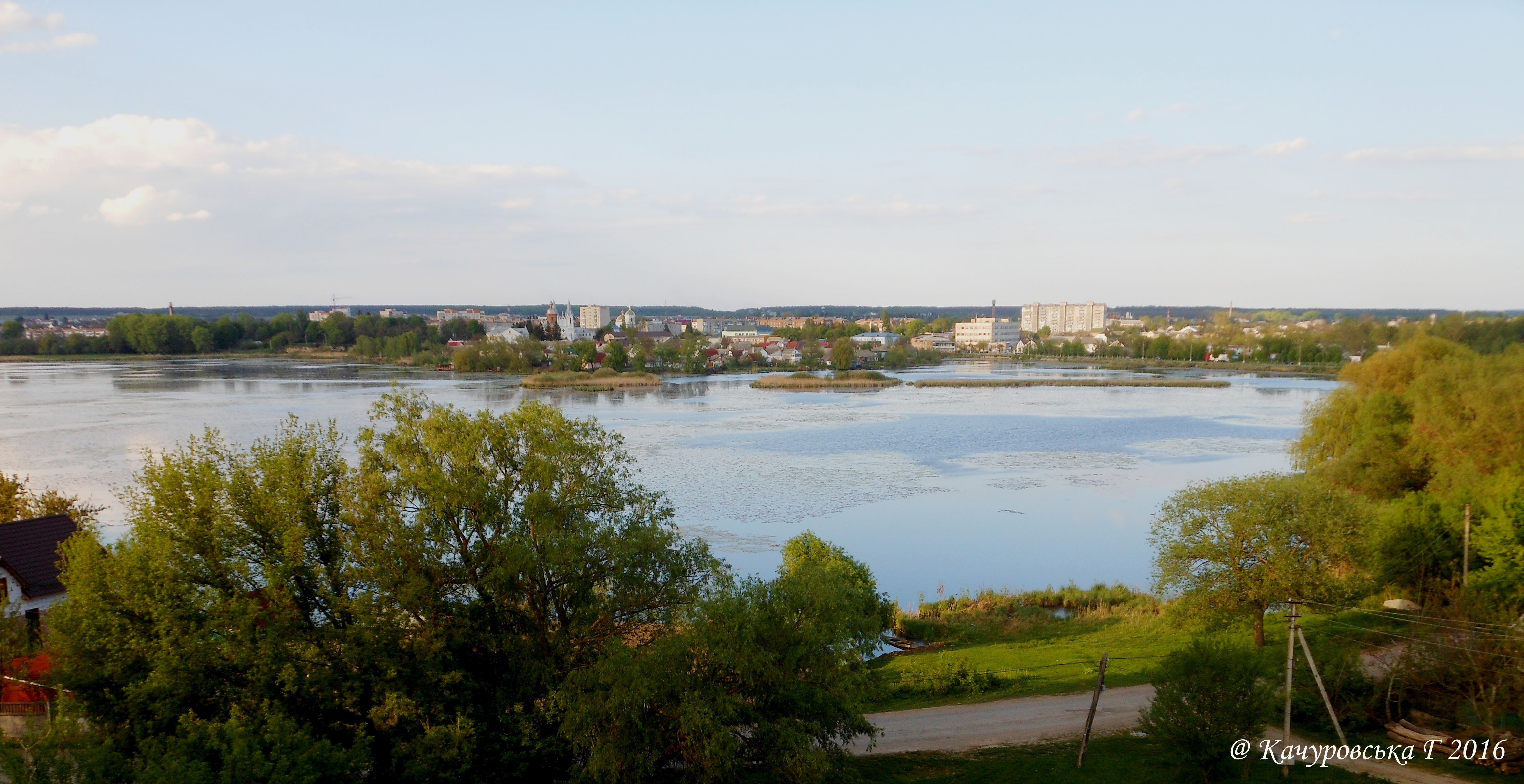 City Bar, river Riv